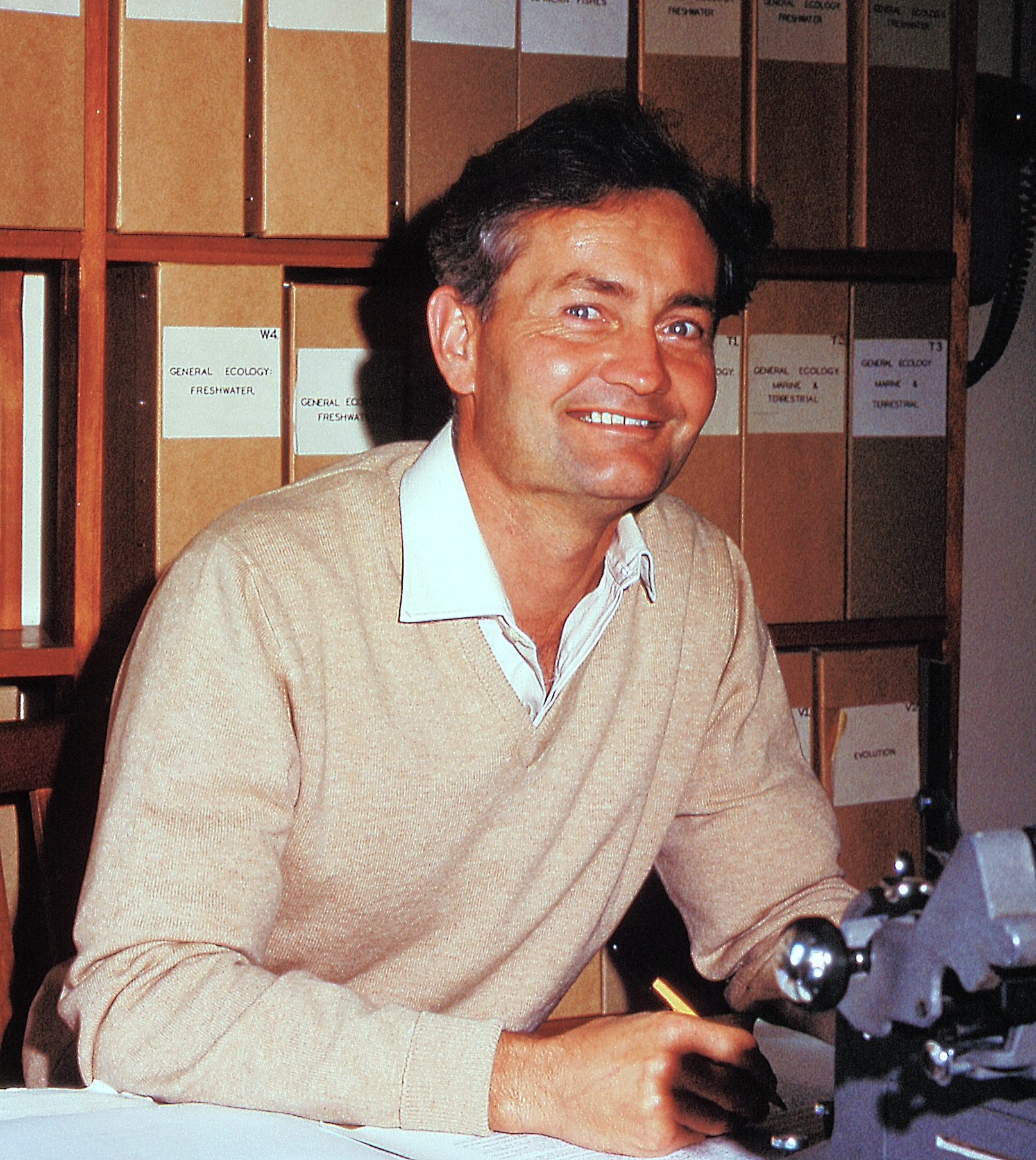 Geoffrey Fryer in his office in the Windermere Laboratory of the Freshwater Biological Association, Cumbria, UK. This was around the time he and T.D. Iles had completed writing their classic book The Cichlid Fishes of the Great Lakes of Africa.